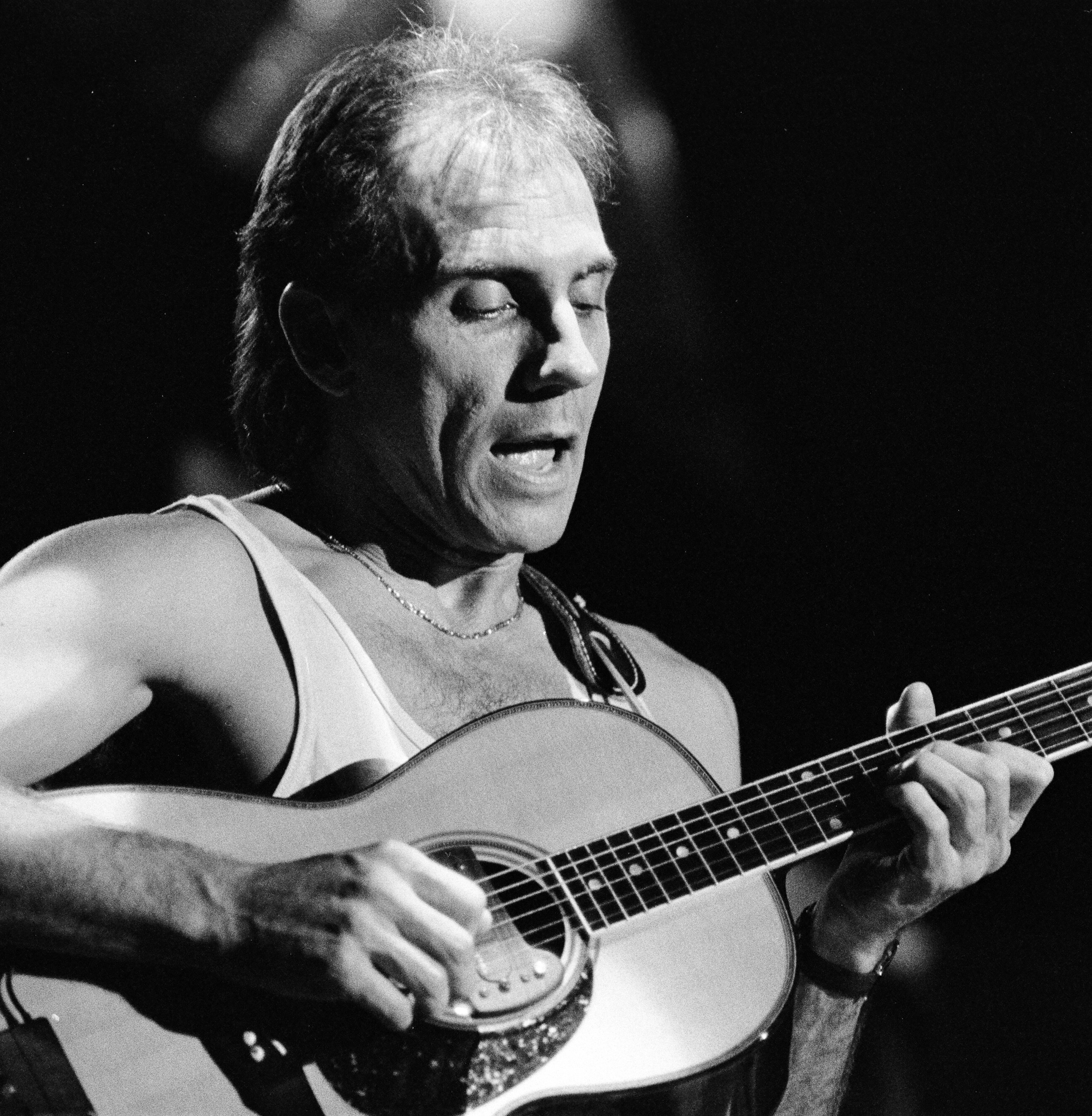 Larry Carlton & The Yellow Jackets, Bailey Hall, Cornell University, September 14, 1987.